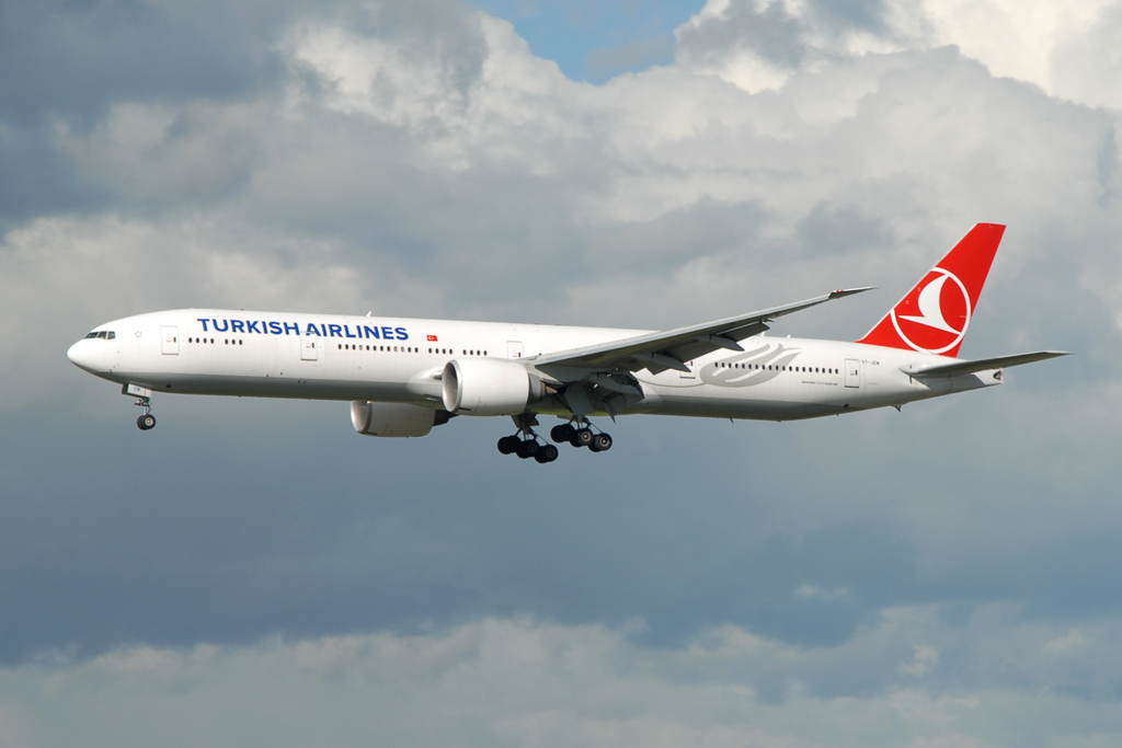 VT-JEM Boeing 777-35RER msn 35162/666 operated by Turkish Airlines.